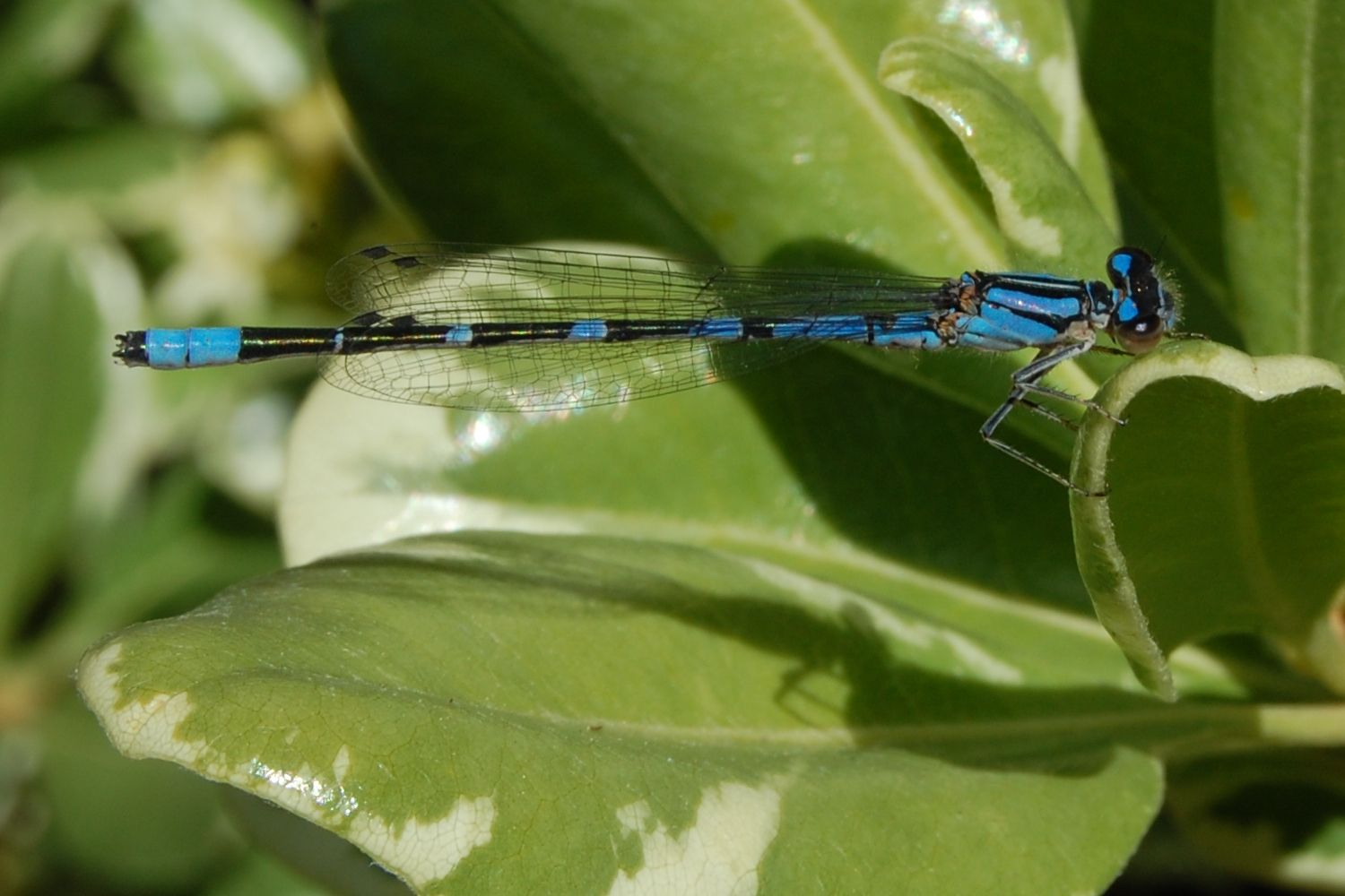 Arroyo Bluet. Male